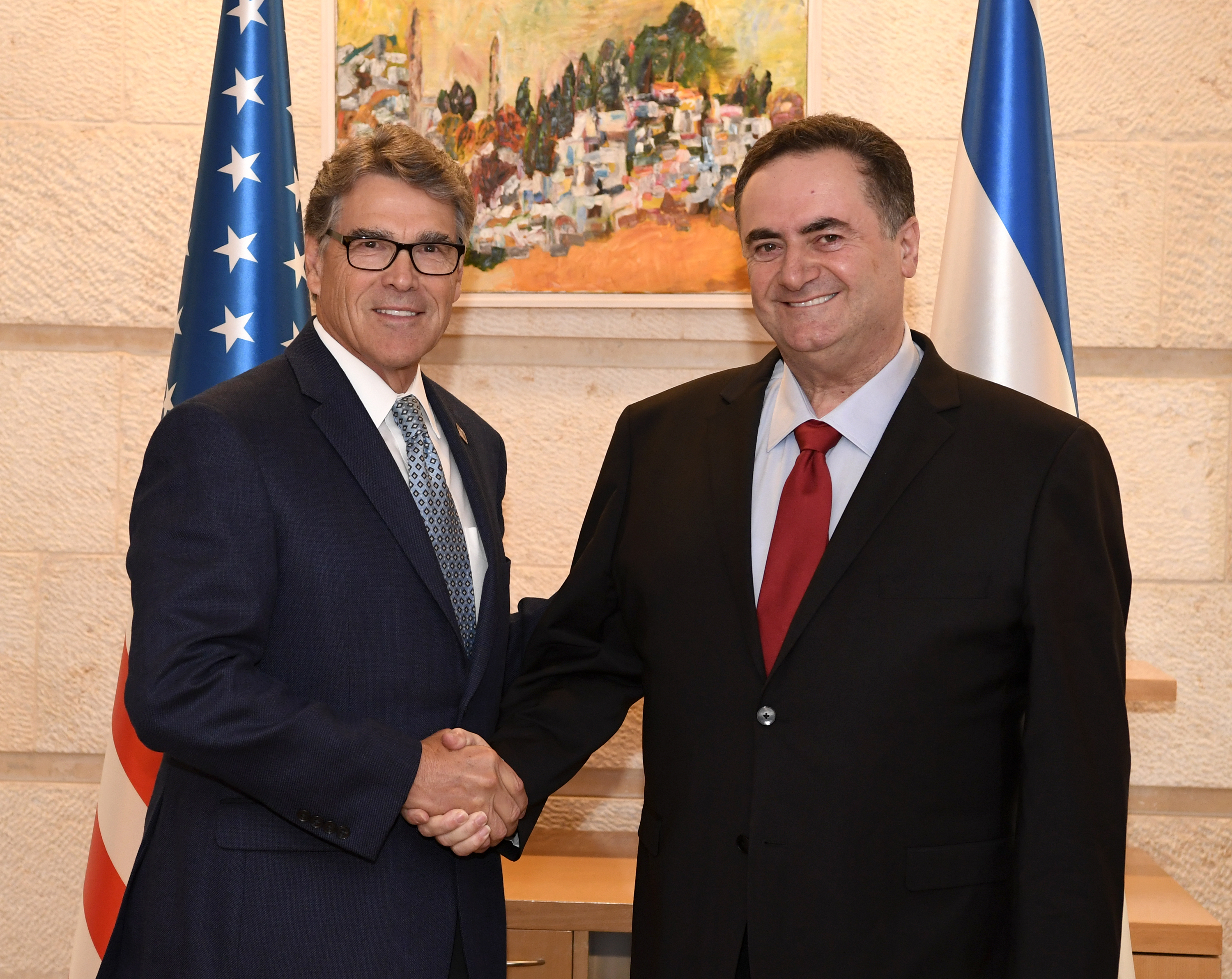 U.S. Secretary of Energy Rick Perry meets with Israeli Foreign Minister Yisrael Katz at the Foreign Ministry in Jerusalem, July 23, 2019. Photo Credit: Matty Stern/U.S. Embassy Jerusalem Rick Perry visit to Jerusalem, July 2019